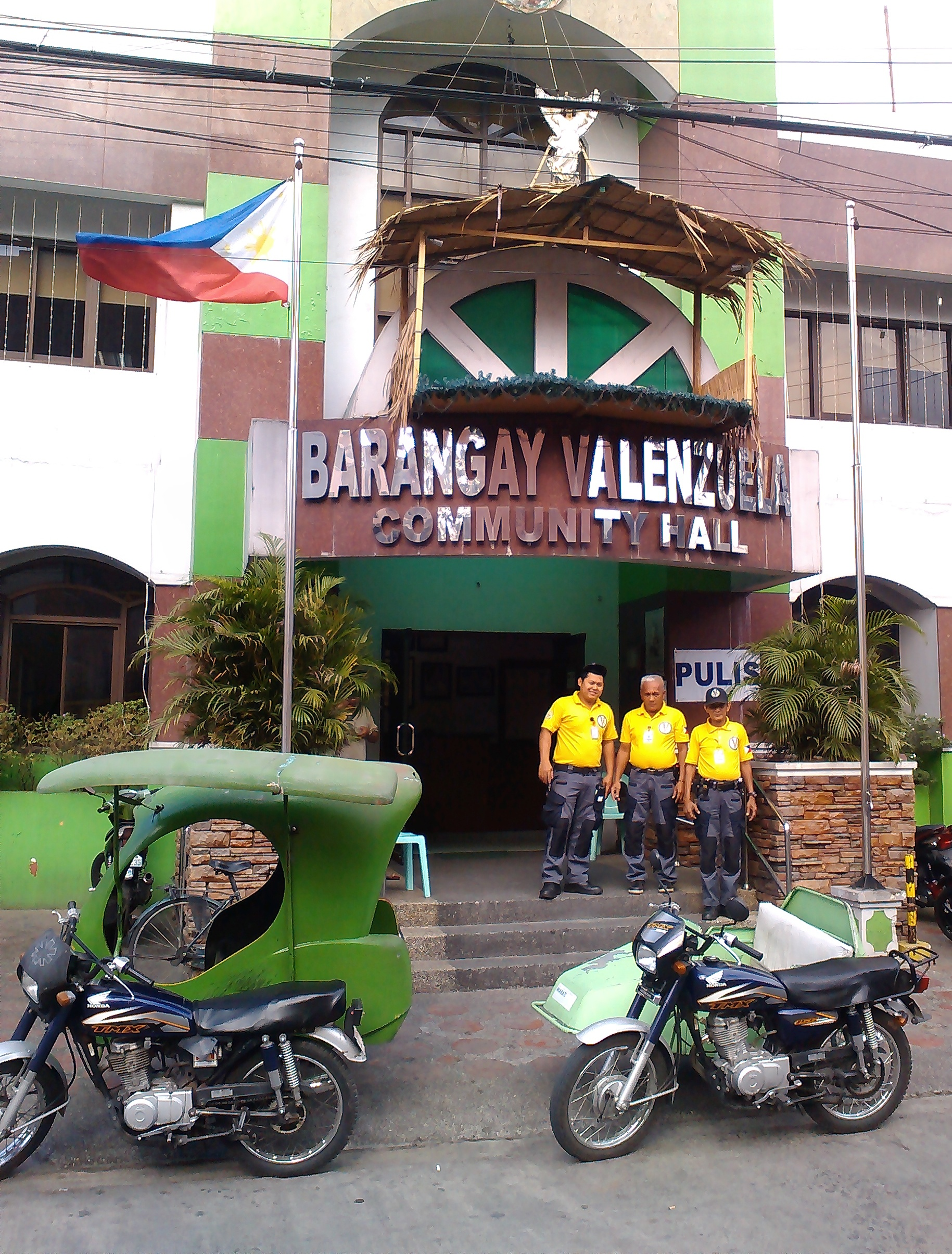 Barangay Valenzuela Community Hall, Makati City (Metro Manila, Philippines)